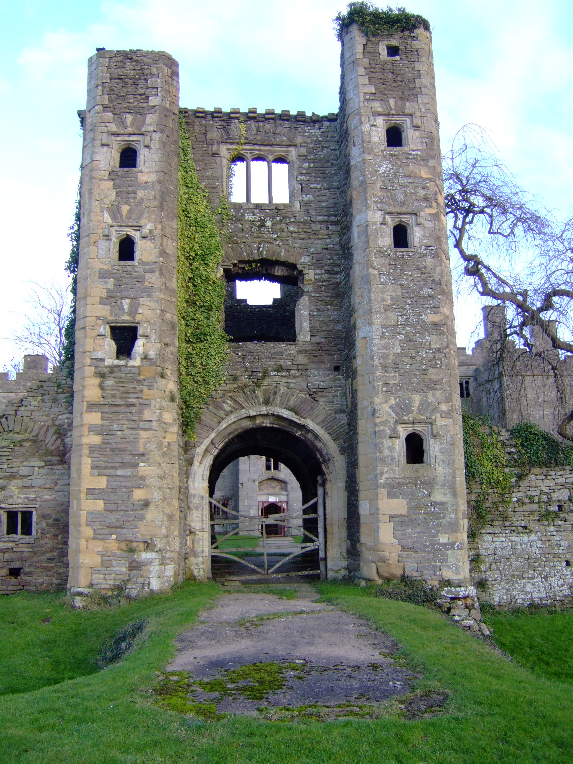 Pen-coed Castle Gate